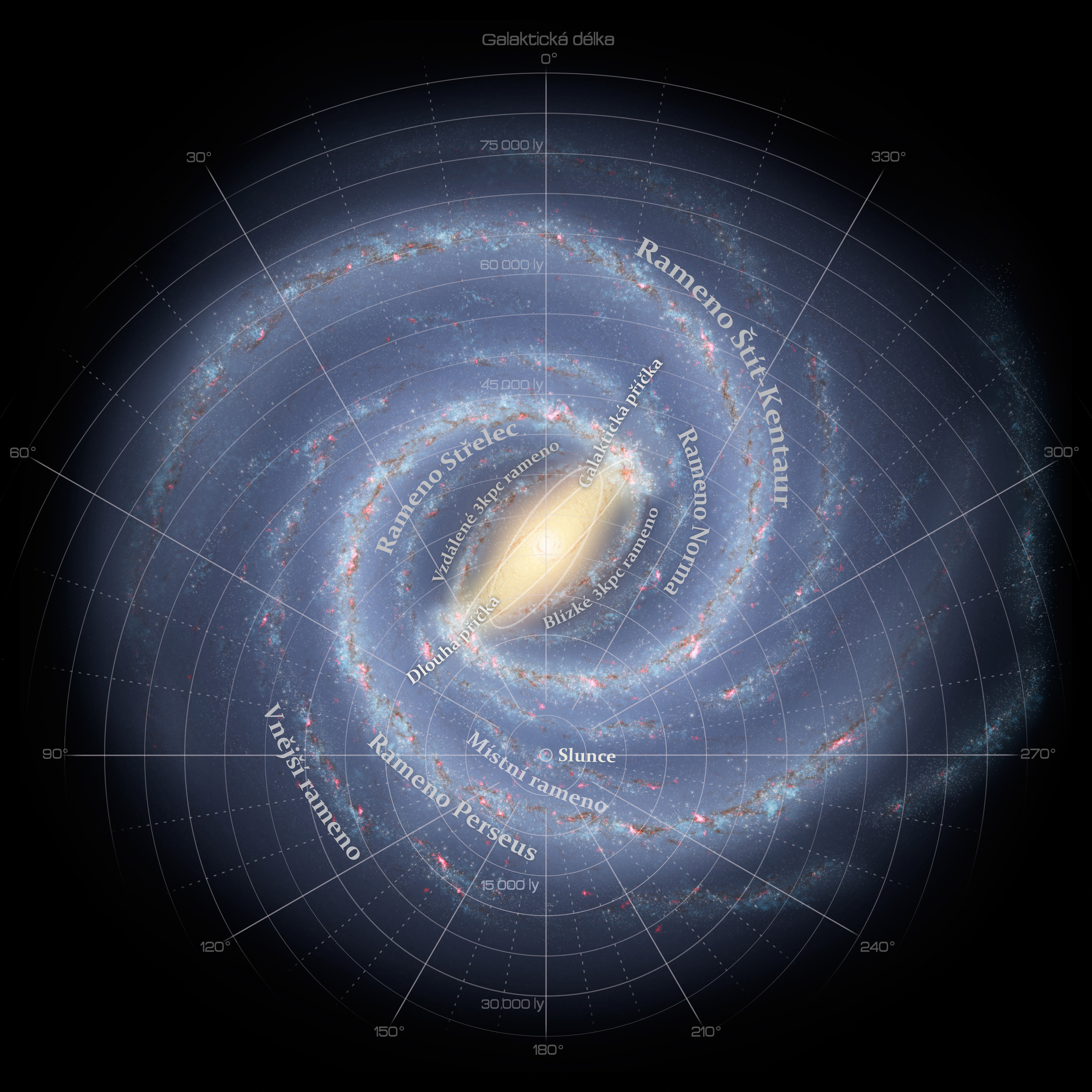 Using infrared images from NASA's Spitzer Space Telescope, scientists have discovered that the Milky Way's elegant spiral structure is dominated by just two arms wrapping off the ends of a central bar of stars